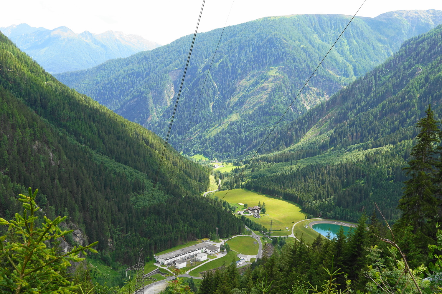 Fragant power plant group with view to the Kelag storage Innerfragant, municipality Flattach im Mölltal, district Spittal an der Drau, Carinthia, Austria, EU